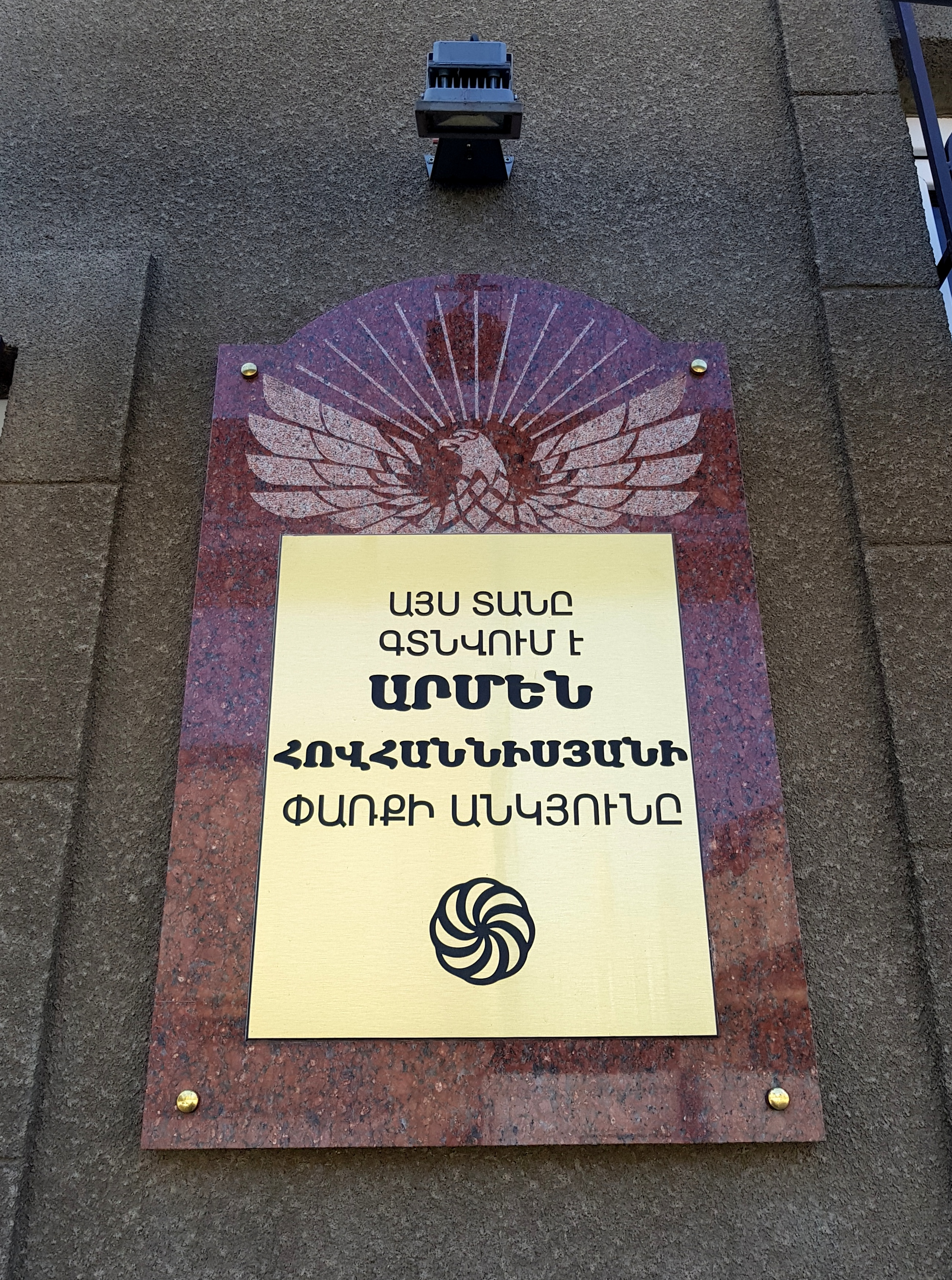 The corner of glory for Armean Hovhannisyan in the house where he lived, Avan, Yerevan